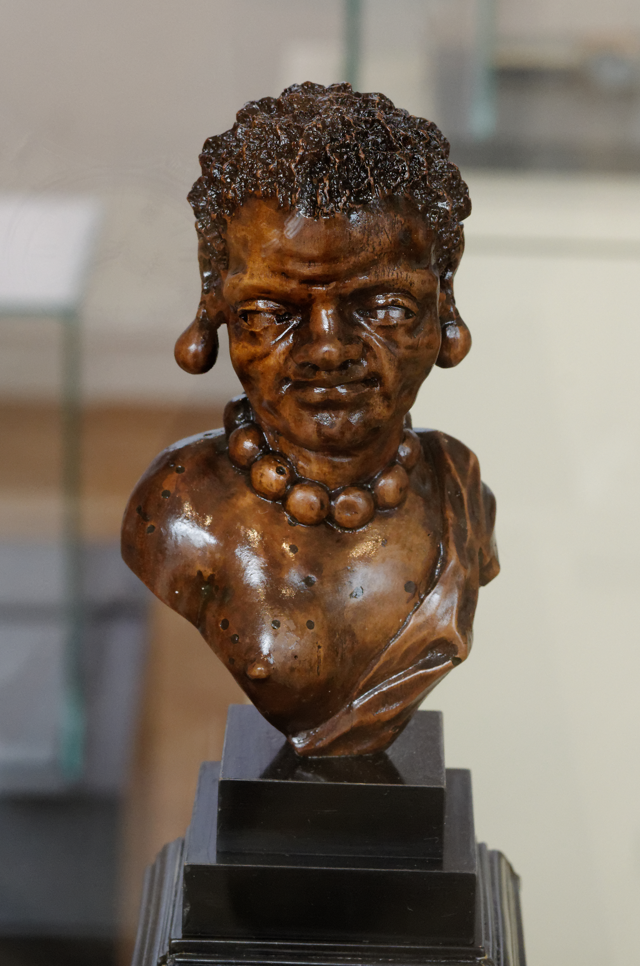 Head of an African, Venice (?), 17th century. Exposed in Budapest Museum of Applied Arts. Belonged to a former director of the Museum